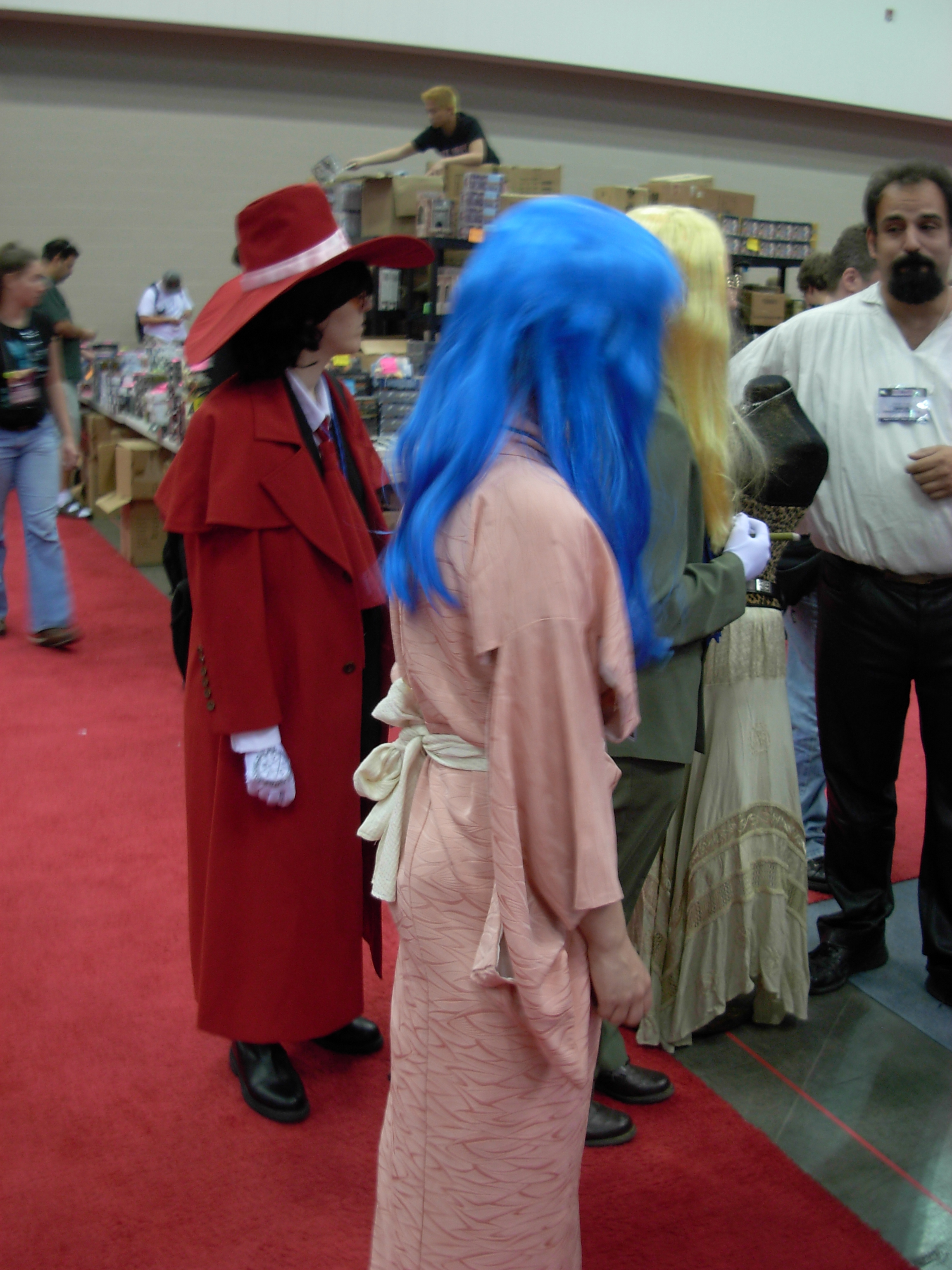 Photos from Gen Con Indy 2007. From the left: Alucard (Hellsing anime). Next, dressed in green with blond hair and a cigar: Sir Integra Hellsing.